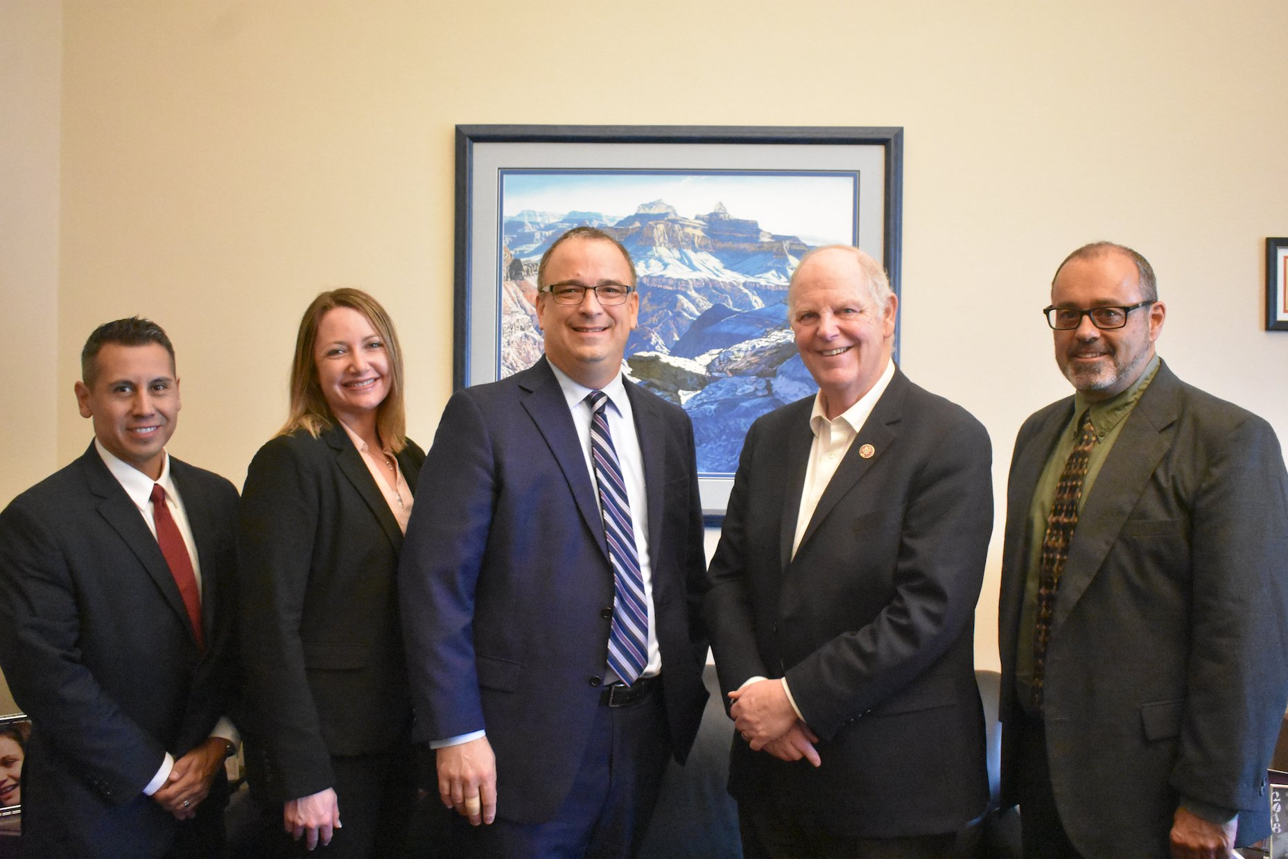 Yesterday, I met with @ArizonaDOT to discuss key transportation projects in our state that need our attention. We must prioritize investments that improve our infrastructure and keep our roads safe for #AZ01 families.